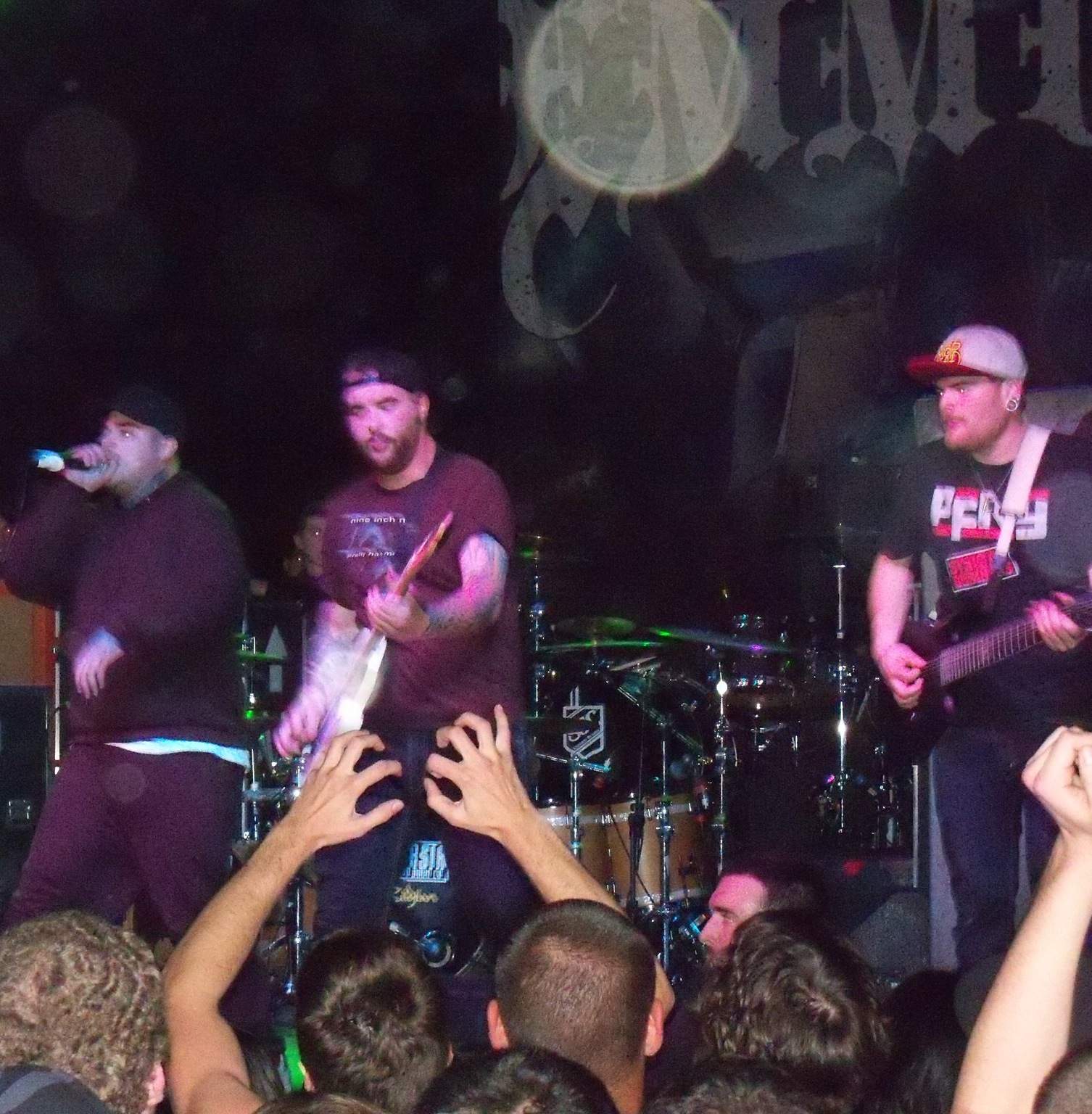 Metal band, Emmure performing in Tempe, Arizona on Attack Attack!'s This Is a Family Tour